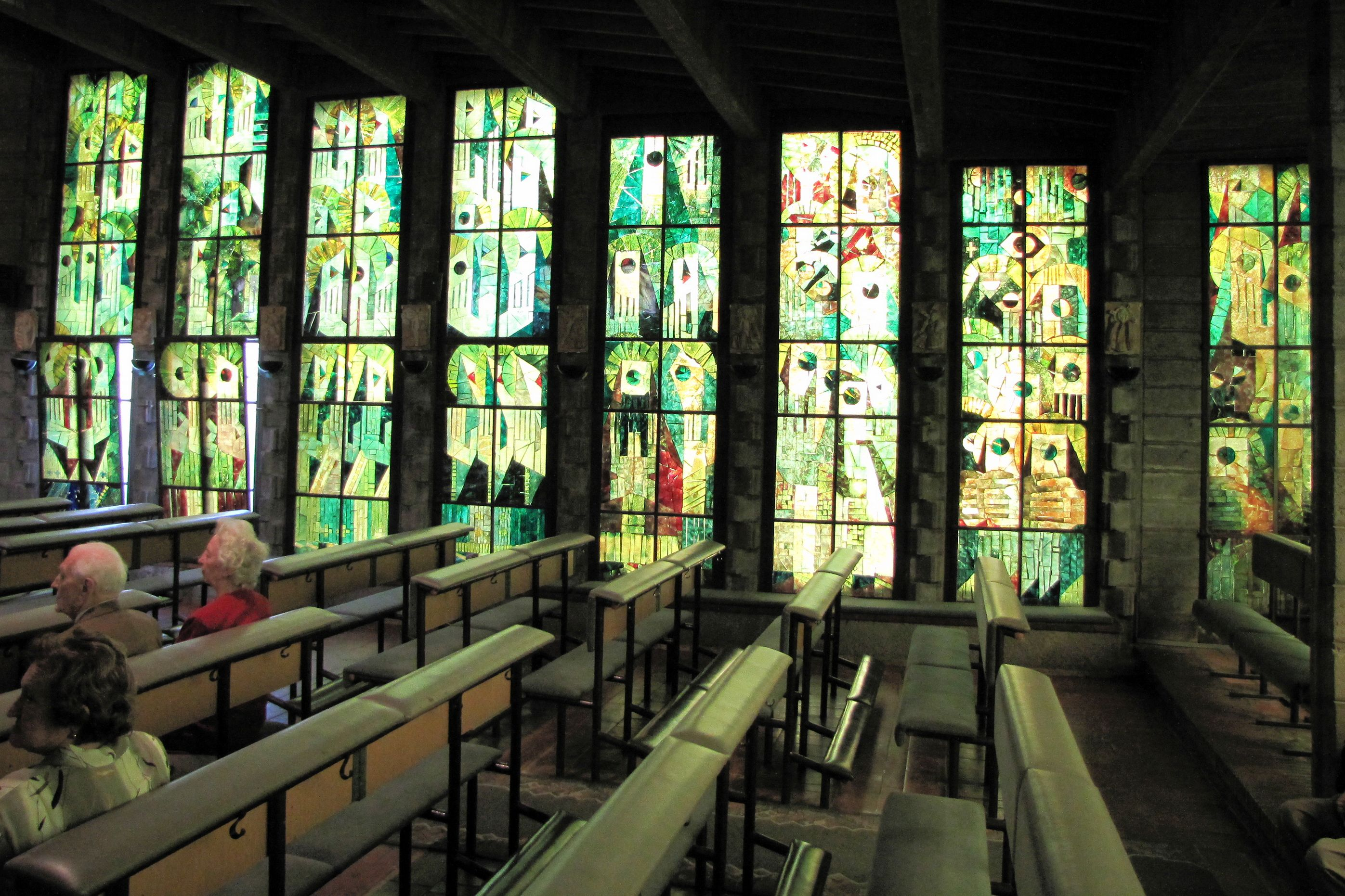 All Saints Church, Budapest District XII